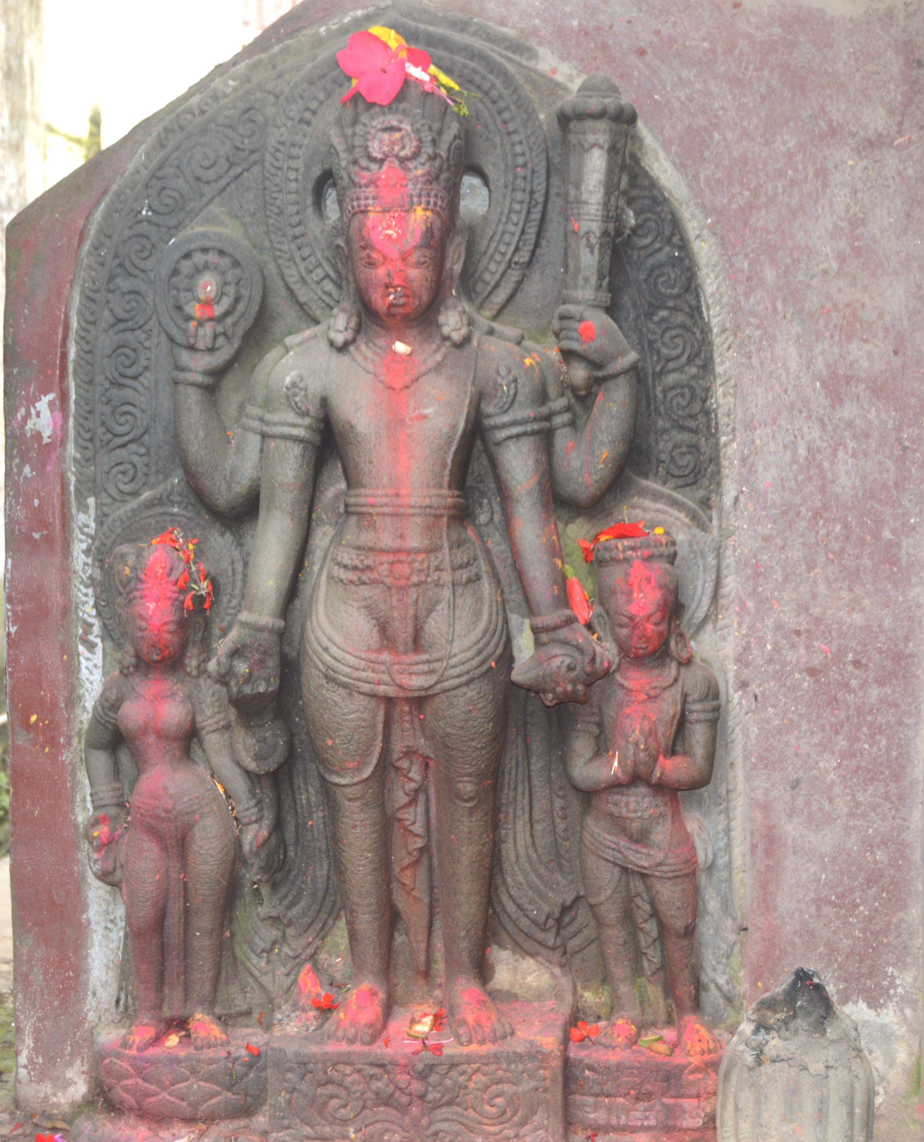 Sridhar Vishnu stands on a pedestal holding a chakra wheel and lotus in his right hands, and a small mace club and conch shell in his left hands . The other two figures are Lakshmi (Laxmi) and Garuda.